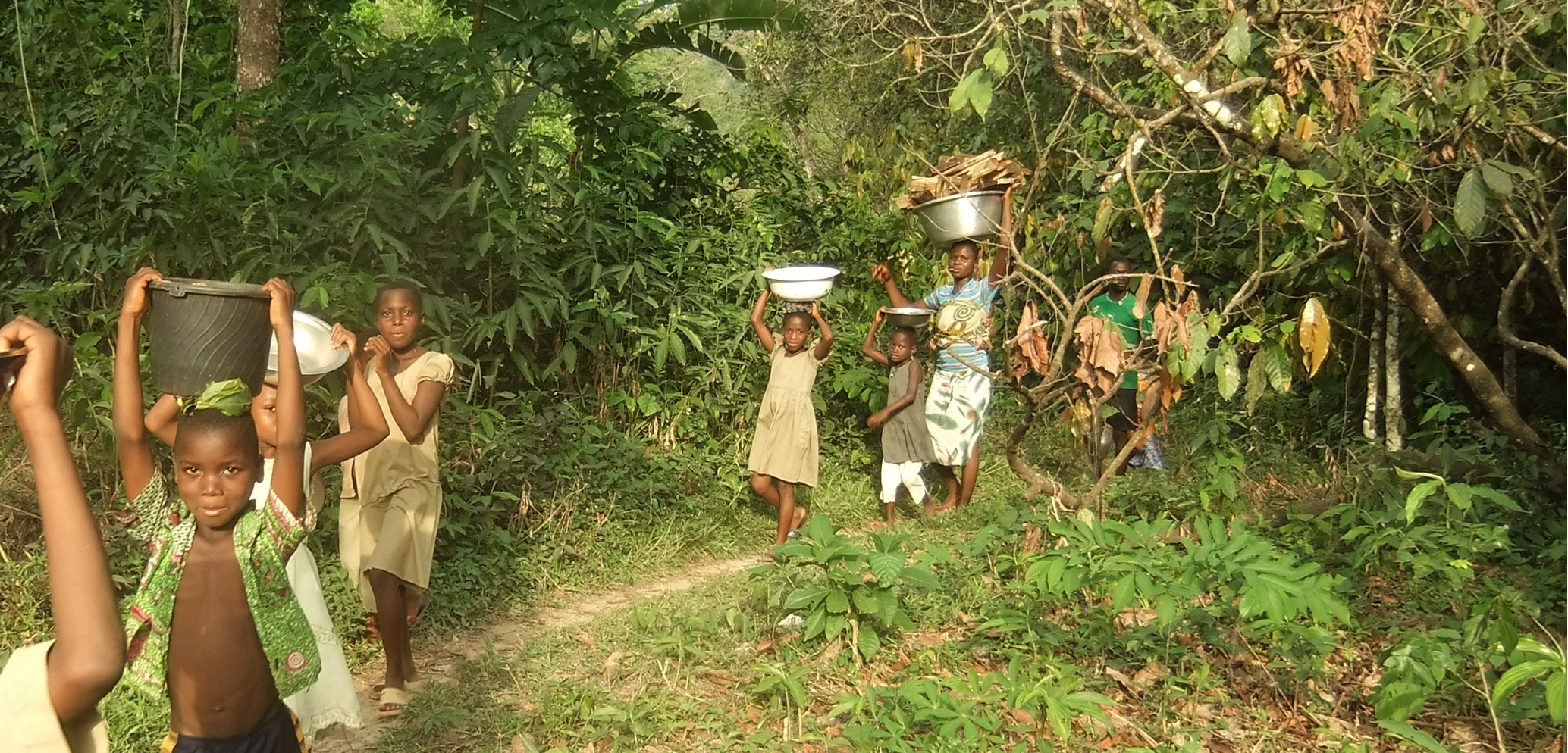 Forêt des Deux Bena, Togo This is an image of "African people at work" from Togo